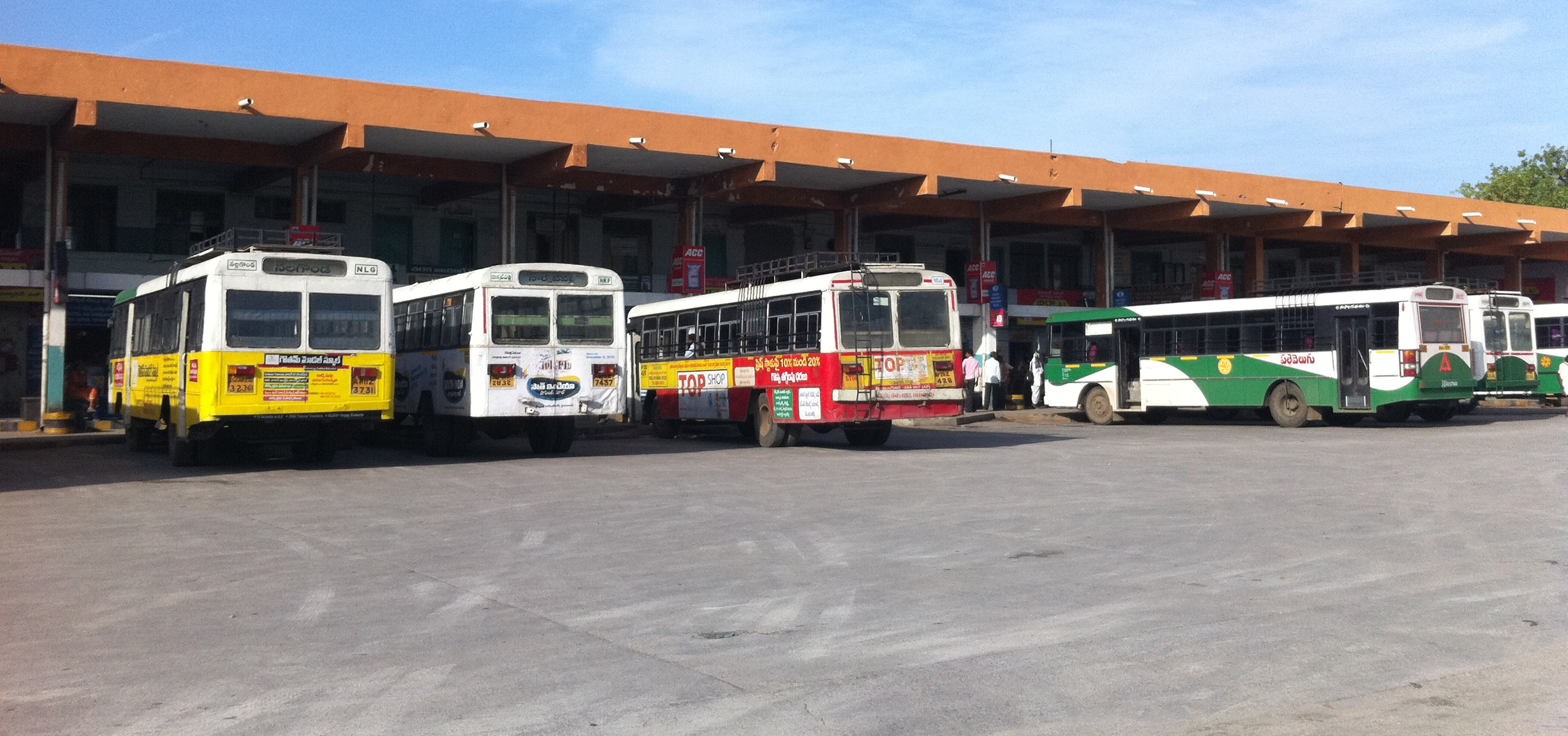 APSRTC Busbay Nalgonda